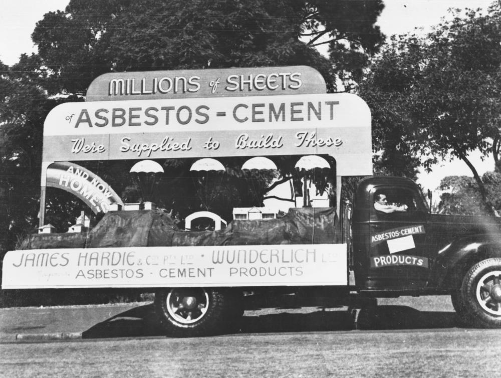 James Hardie and Wunderlich float ready for the Victory Day procession in Brisbane, 1946 The float is advertising asbestos cement.